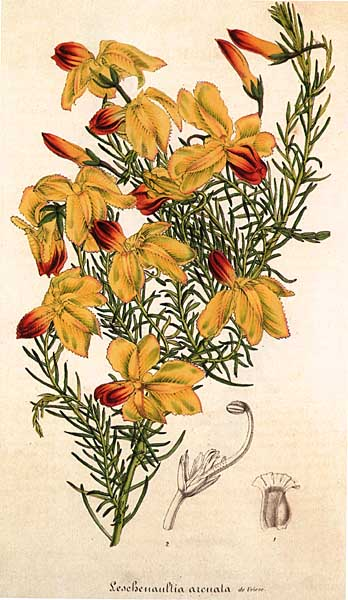 Botanical illustration of Lechenaultia linarioides by an unknown artist, published in 'Flore des Serres et des Jardins de l'Europe' (1845-1883) Ed: Louis B. Van Houtte. The caption describes the plant as Lechenaultia arcuata.